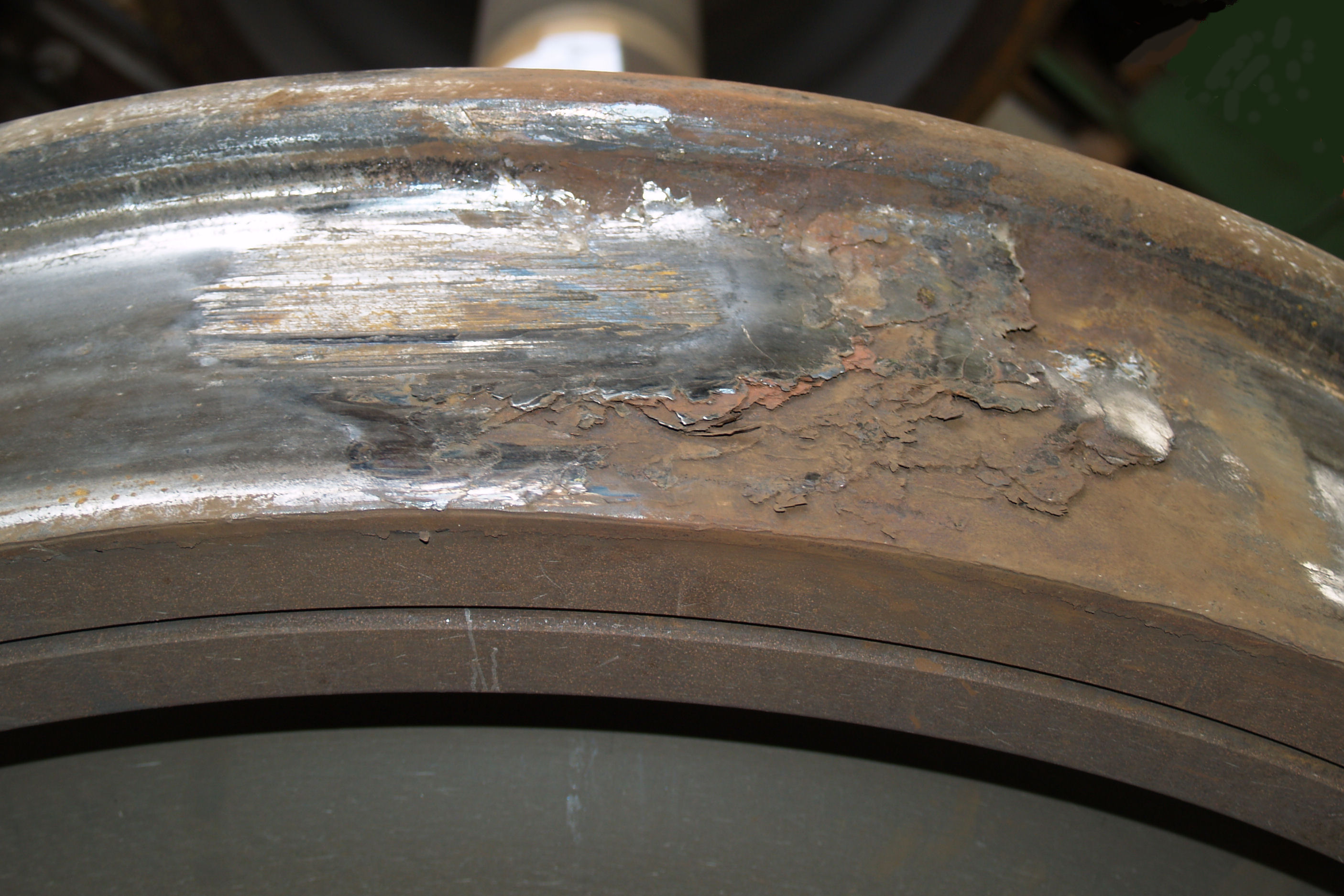 A flat spot on a rail vehicle wheel. The flat spot was caused by a standstill as a consequence of a brake failure. This specific wheel was on disposition at a SBB jubilee celebration in Erstfeld.